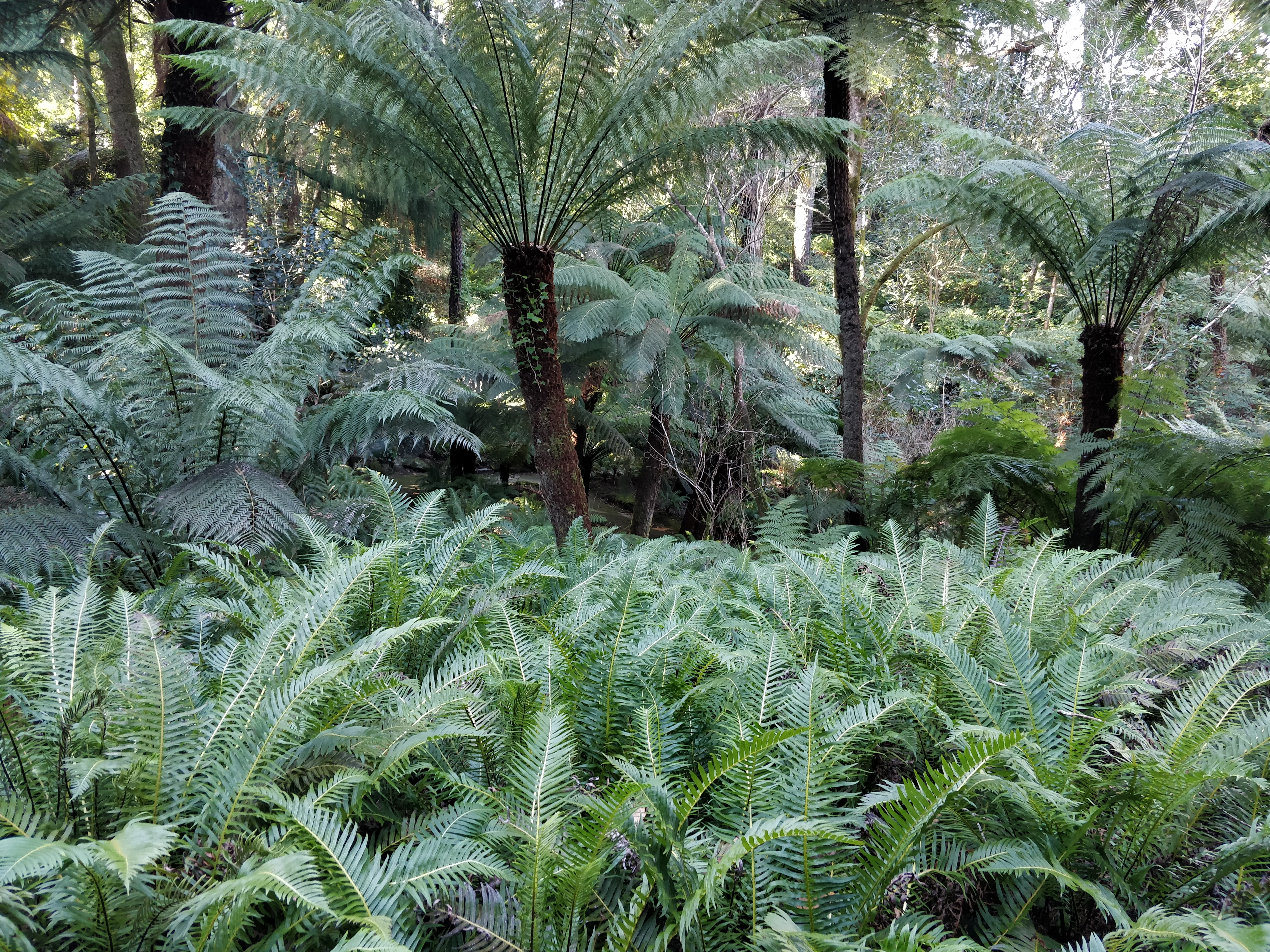 Fern Garden at the Chalet and Garden of the Contessa D'Edla, Sintra, Portugal